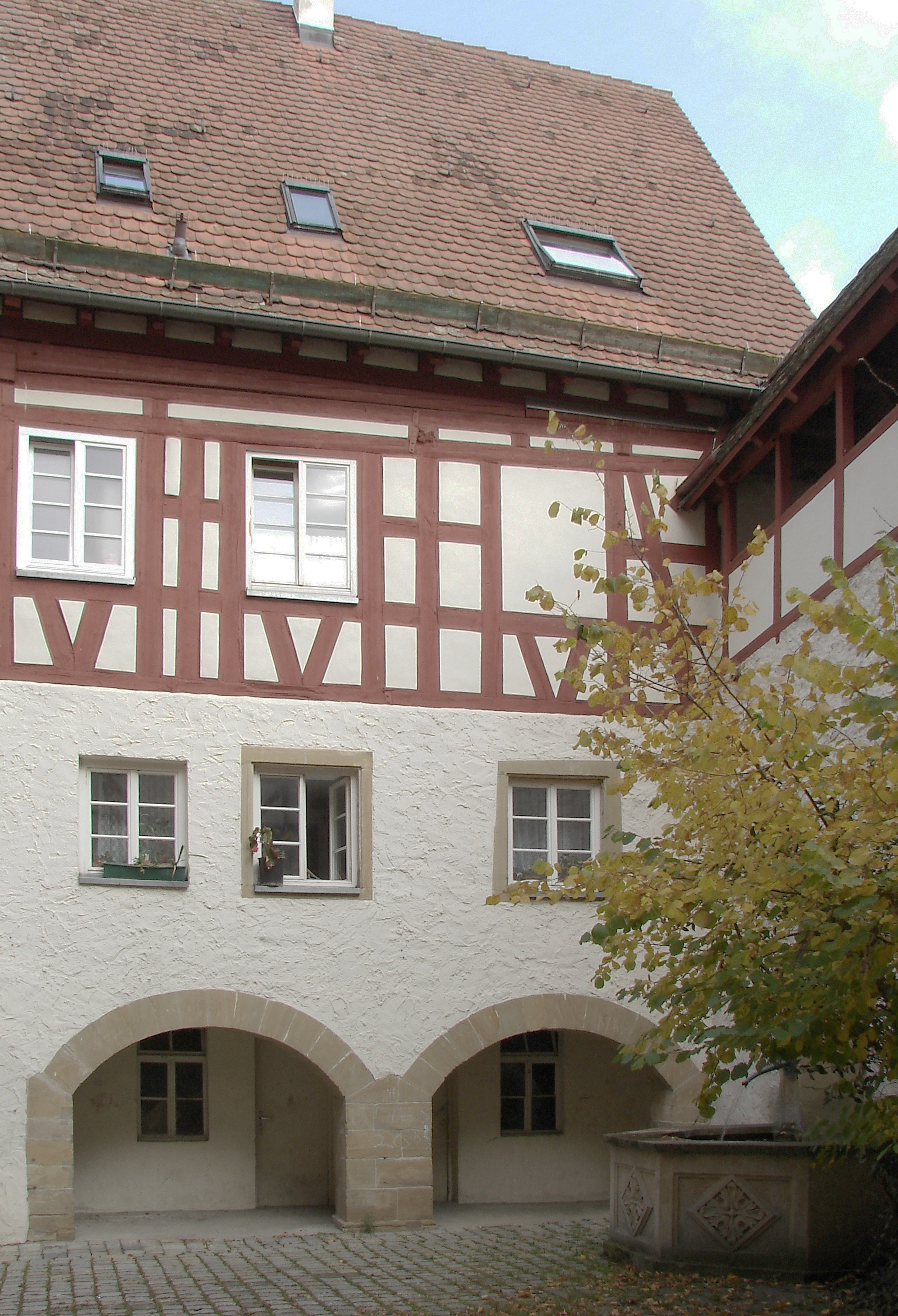 Freiberg am Neckar, Inner court of the Old Castle of Beihingen